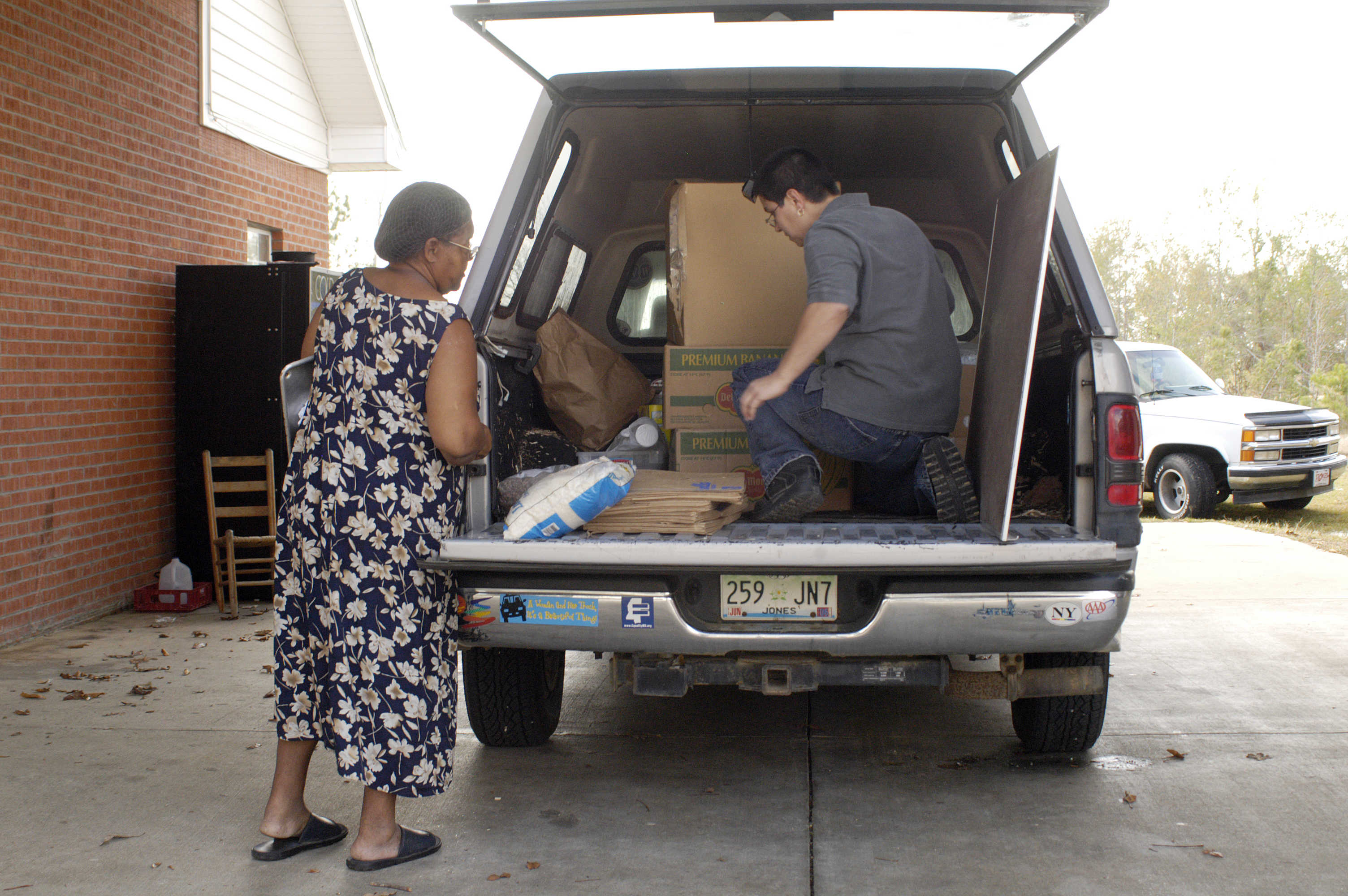 Ellisville, MS, November 27,2005 -- Terri Valenti, co-director of Camp Sister Spirit, a retreat near Ovett, MS, talks to a church member about supplies that she and others are donating to the church community. Members of Camp Sister Spirit provided shelter and food to area residents affected by Hurricane Katrina. Patsy Lynch/FEMA